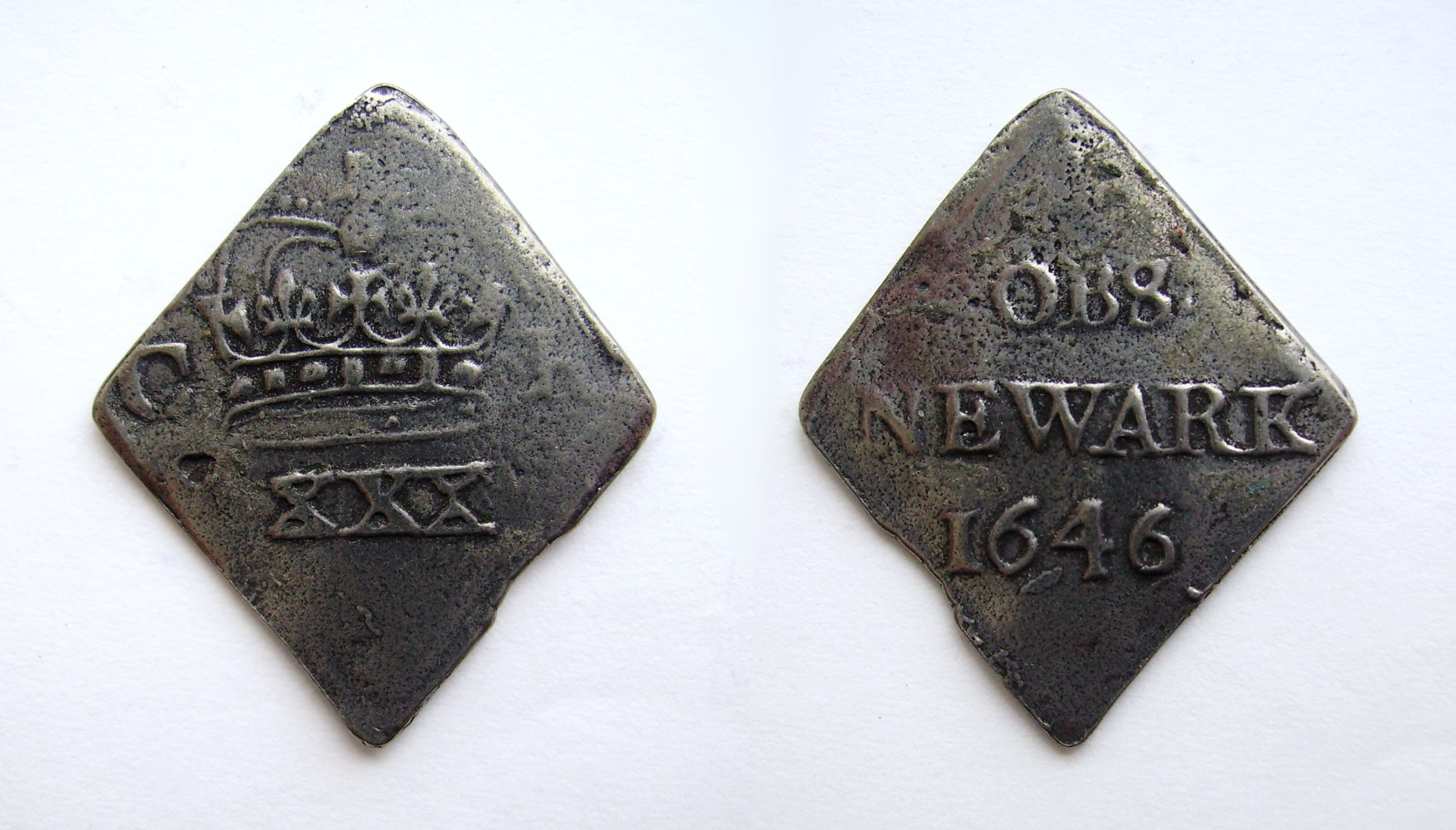 Charles I English Half-Crown from Newark in 1646. Width: 1 inch. Both sides are of the same coin. The letters CR stand for Carolus Rex, Latin for King Charles, and the letters XXX are Roman numerals representing 30 pence. The crude design of the coin is because it was made while the town of Newark was was under siege during the English civil war.